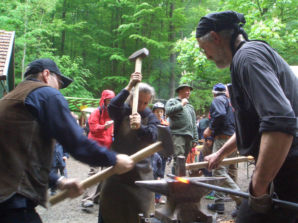 Three blacksmithes working at the anvil